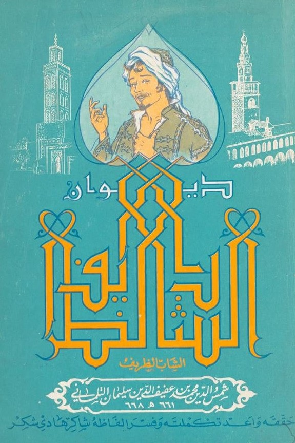 Cover book of Diwan of al-Shab al-Zari